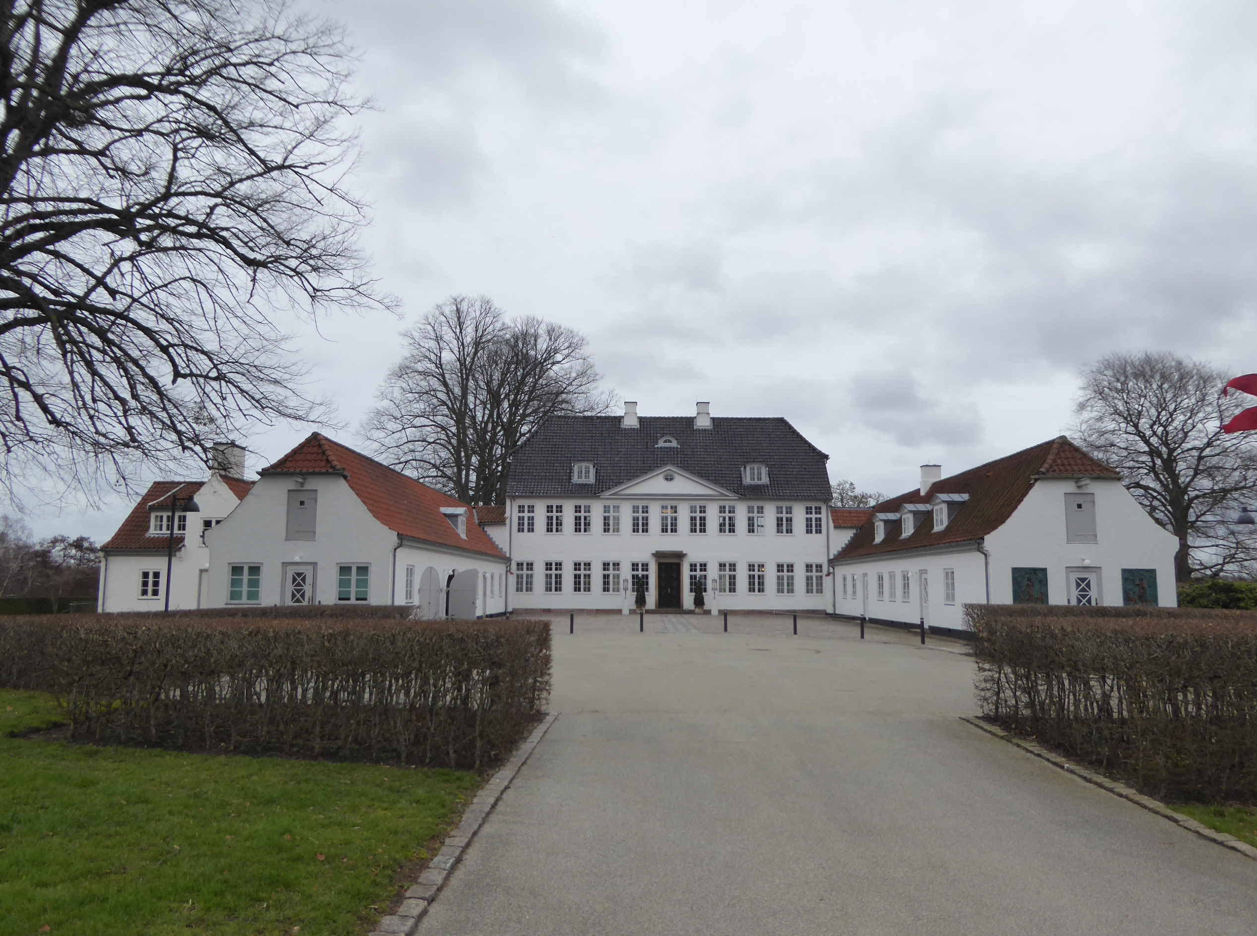 The mansion Marienborg of Copenhagen which is used as residence for the Danish prime minister and for representative purposes. It is usually closed for the public but after a renovation it was possible to take part in a conducted tour during a weekend.